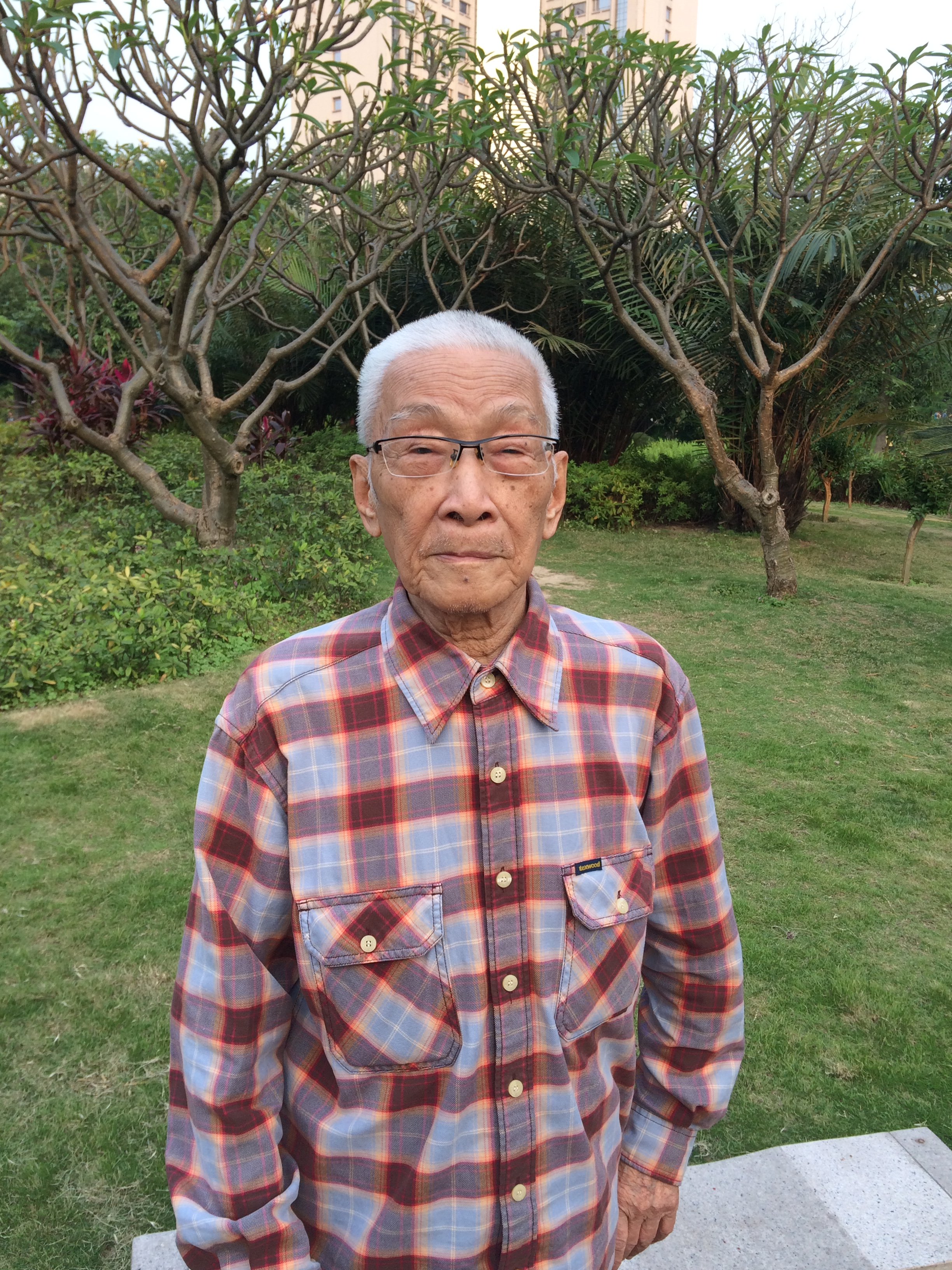 Liang Yan Ran in 2015